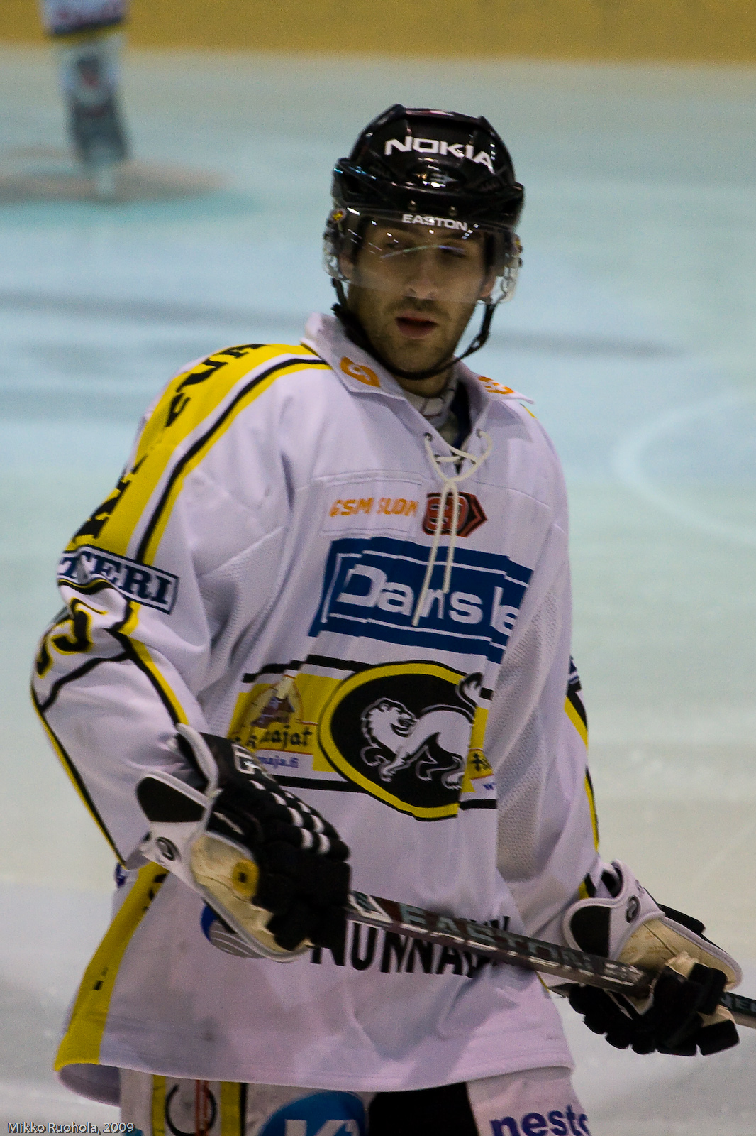 Justin Forrest of the Finnish SM-Liiga hockey team Oulun Kärpät